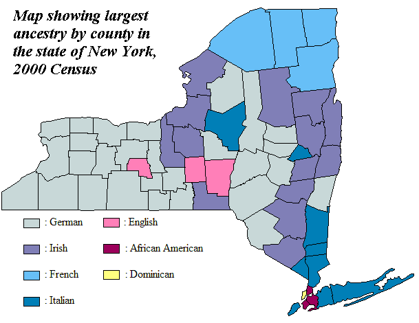 A map showing the most common ancestry of the people of each county in New York.